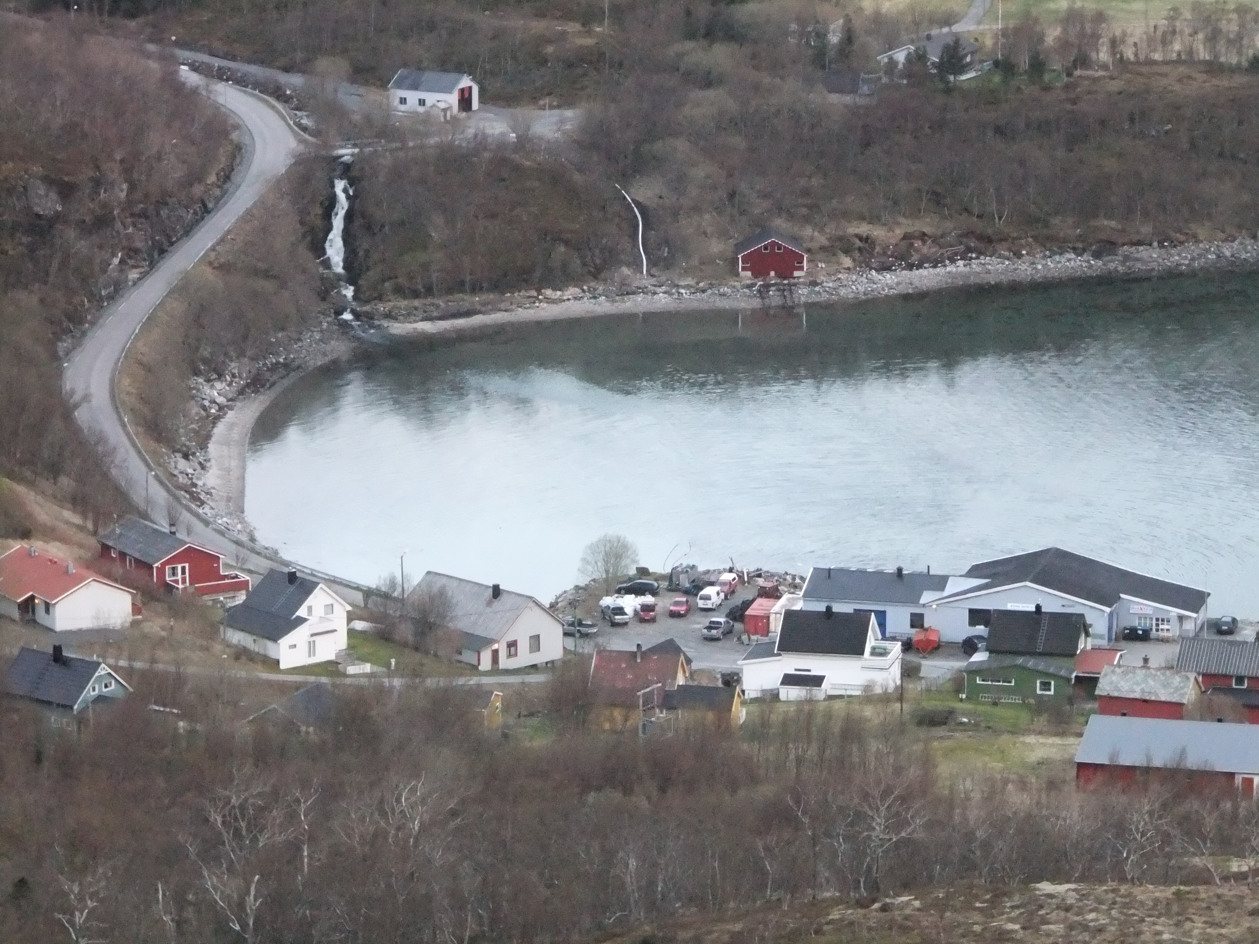 Kvina i Lurøy, mai 2012